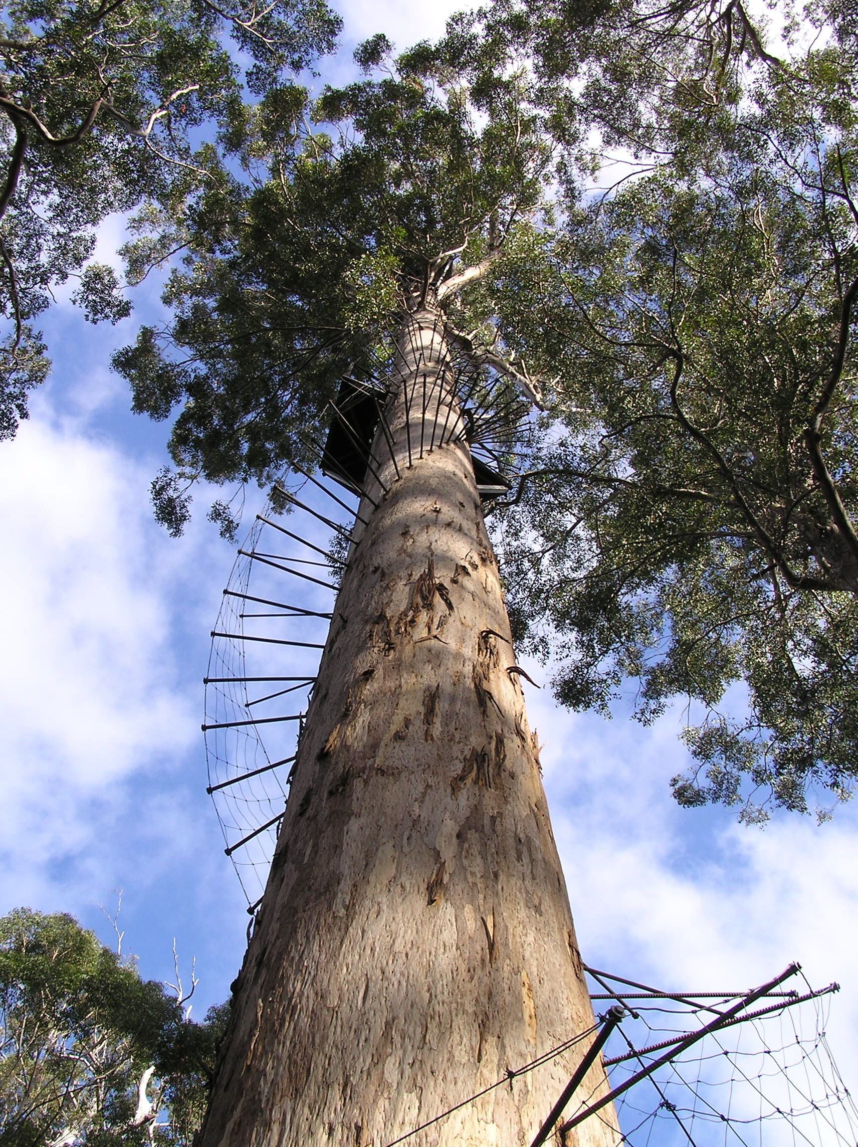 This is a huge tree and you can climb zip the long spikes sticking out of it, over 65 meters high.